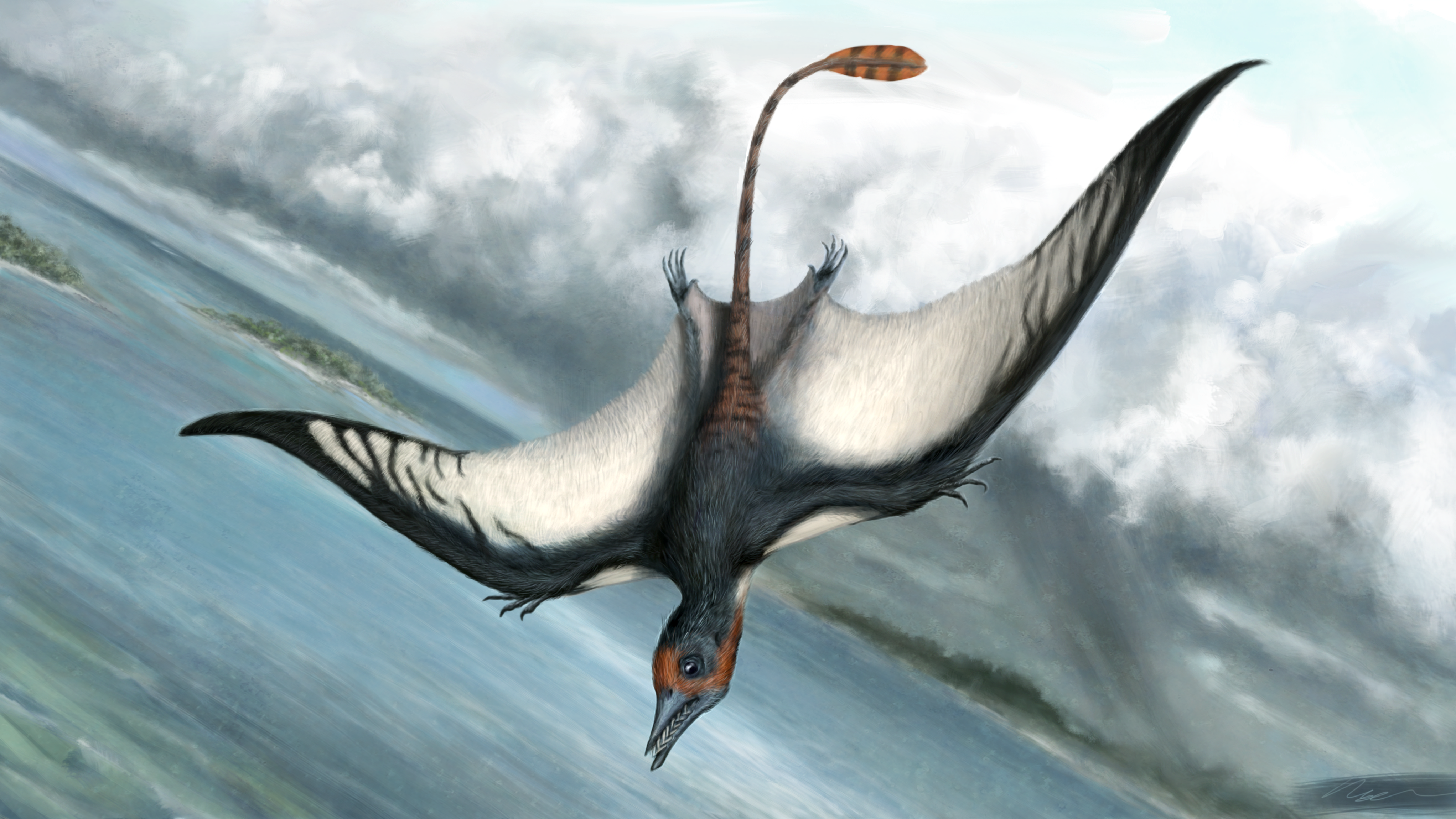 Life reconstruction of Bellubrunnus.